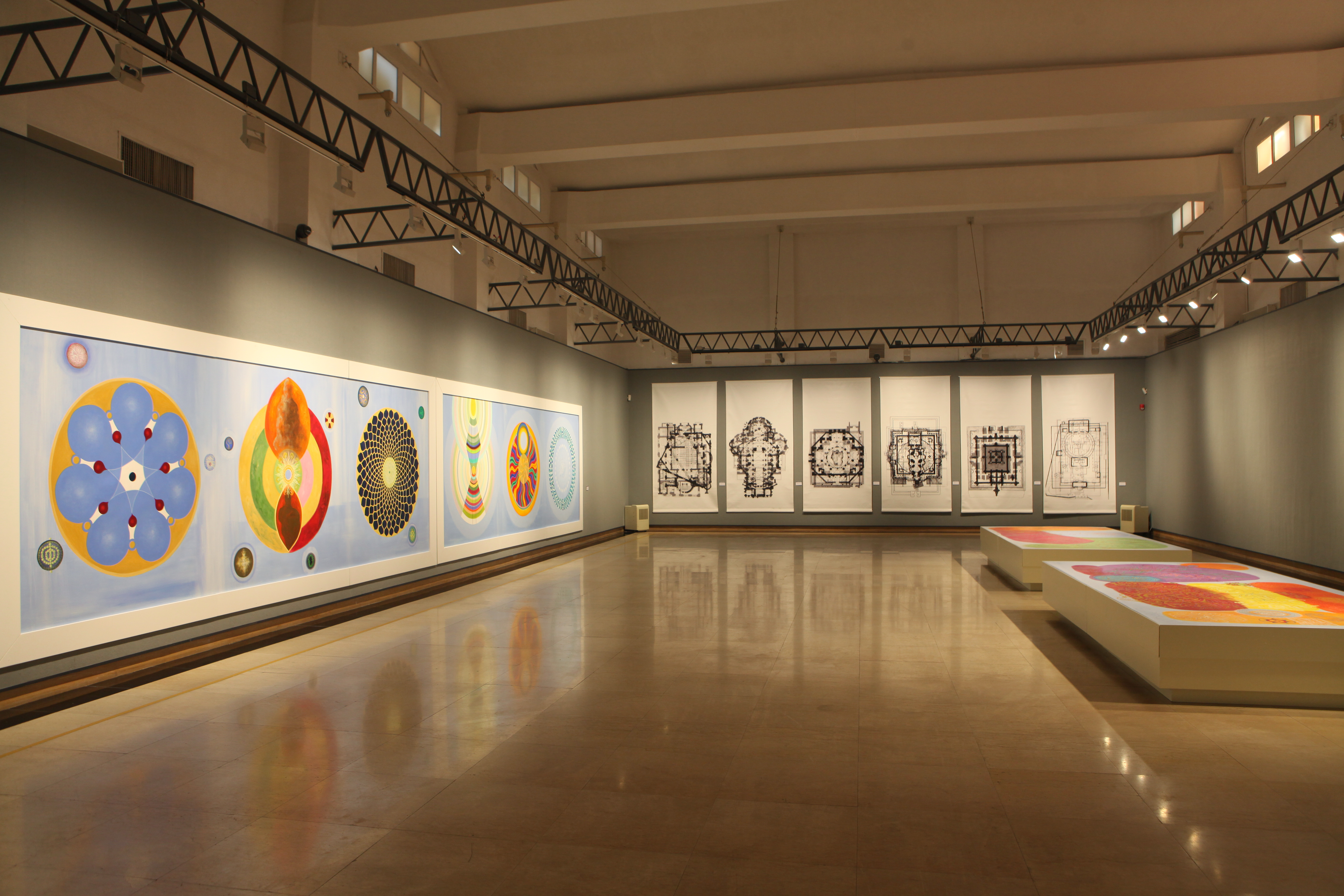 Exhibition from Emily Cheng Installation Shenzhen Art Museum (2015) Copyright Emily SyCip Cheng